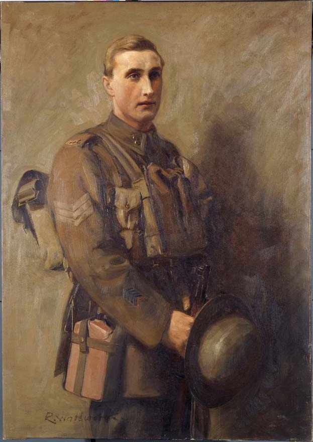 A portrait by Richard Wallwork of Sergeant Samuel Forsyth VC, of the NZEF